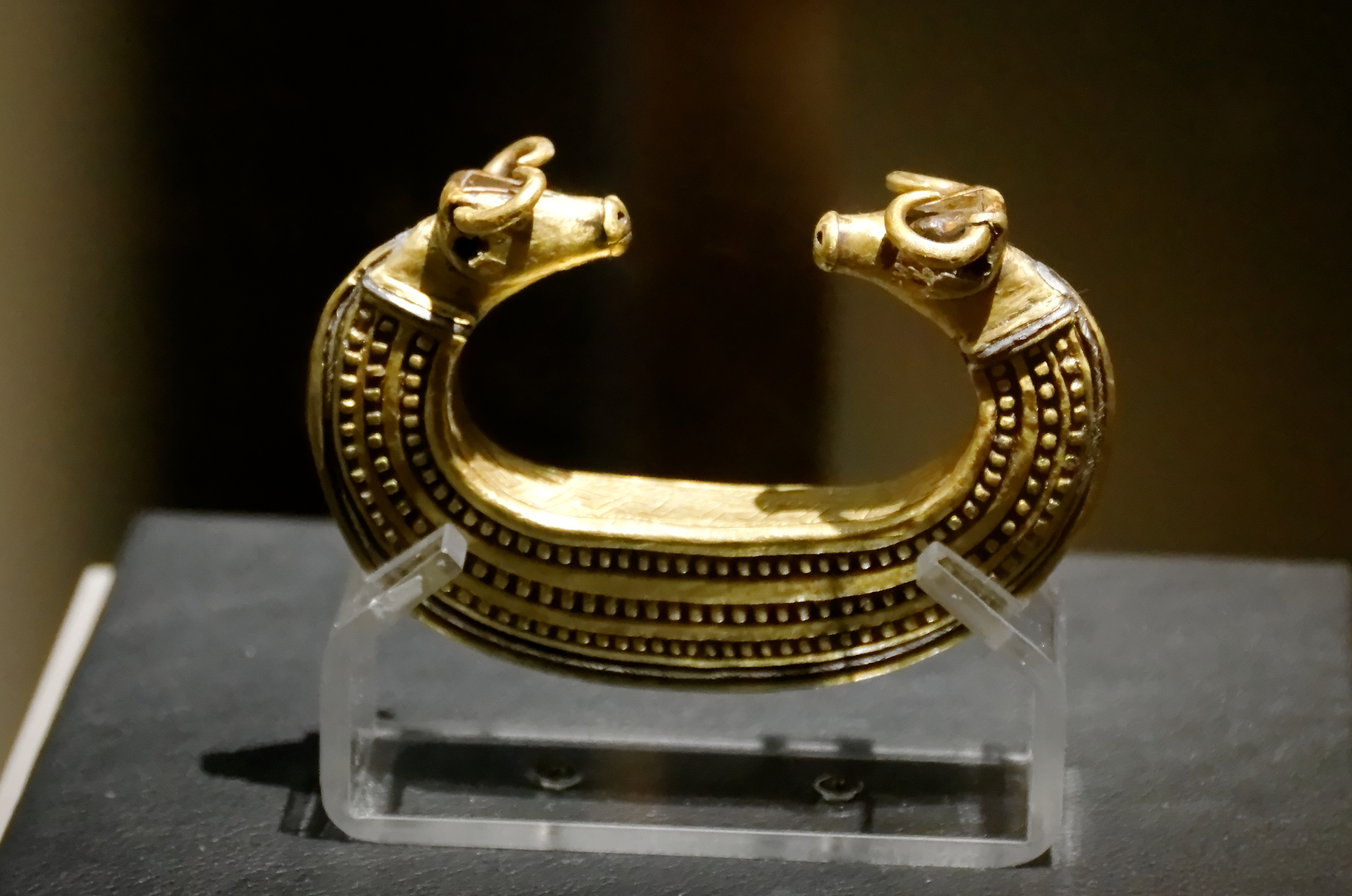 Gold bracelet with bull head from Transylvania. Bronze Age. Hungarian national museum, Budapest